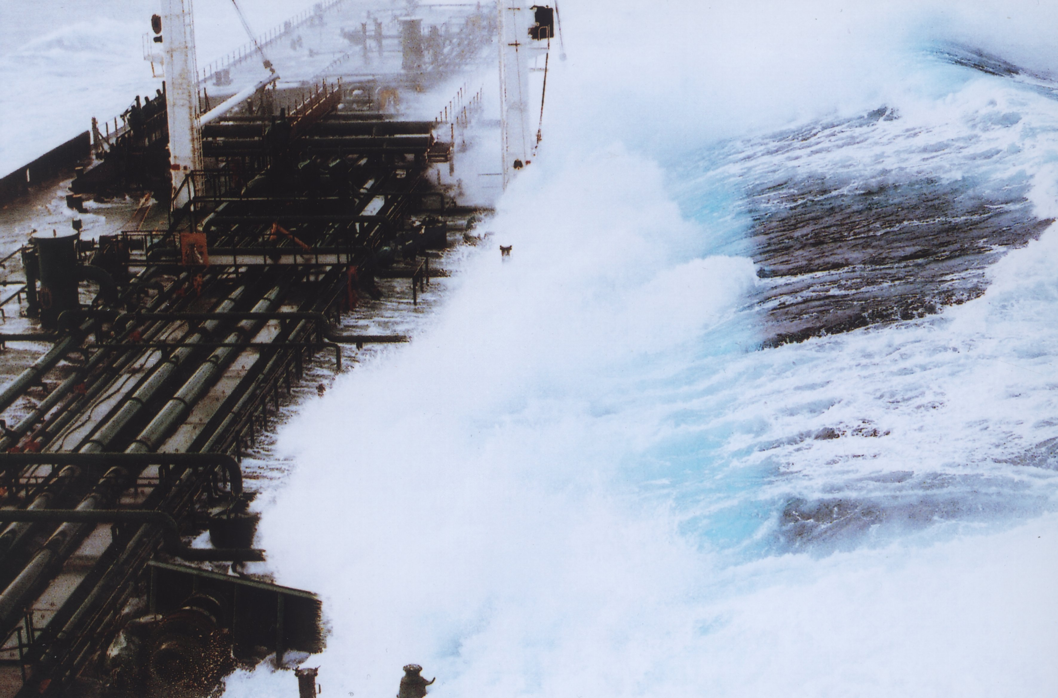 Rogue wave sequence showing 60-foot plus wave hitting tanker headed south from Valdez, Alaska. The ship was running in about 25-foot seas when a monster wave struck it broadside on the starboard side. Photo #1 of sequence. Taken from bridge of OVERSEAS CHICAGO. Alaska, Gulf of Alaska.